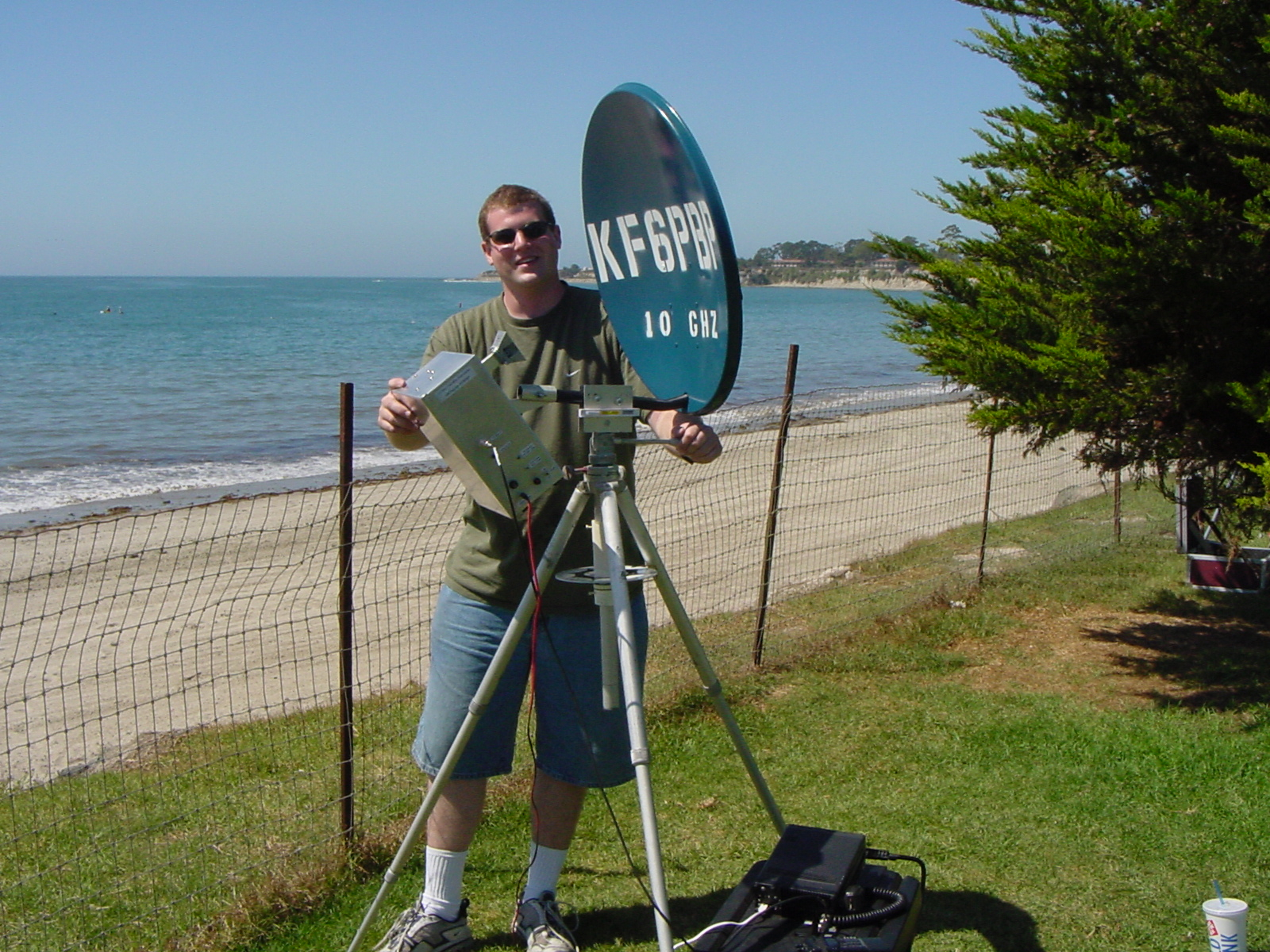 A much younger me with my homebrew 10GHz narrow band amateur radio transverter on the beach in Santa Barbara, CA. Photo taken in the summer of 2000 during the ARRL 10GHz and Up Contest